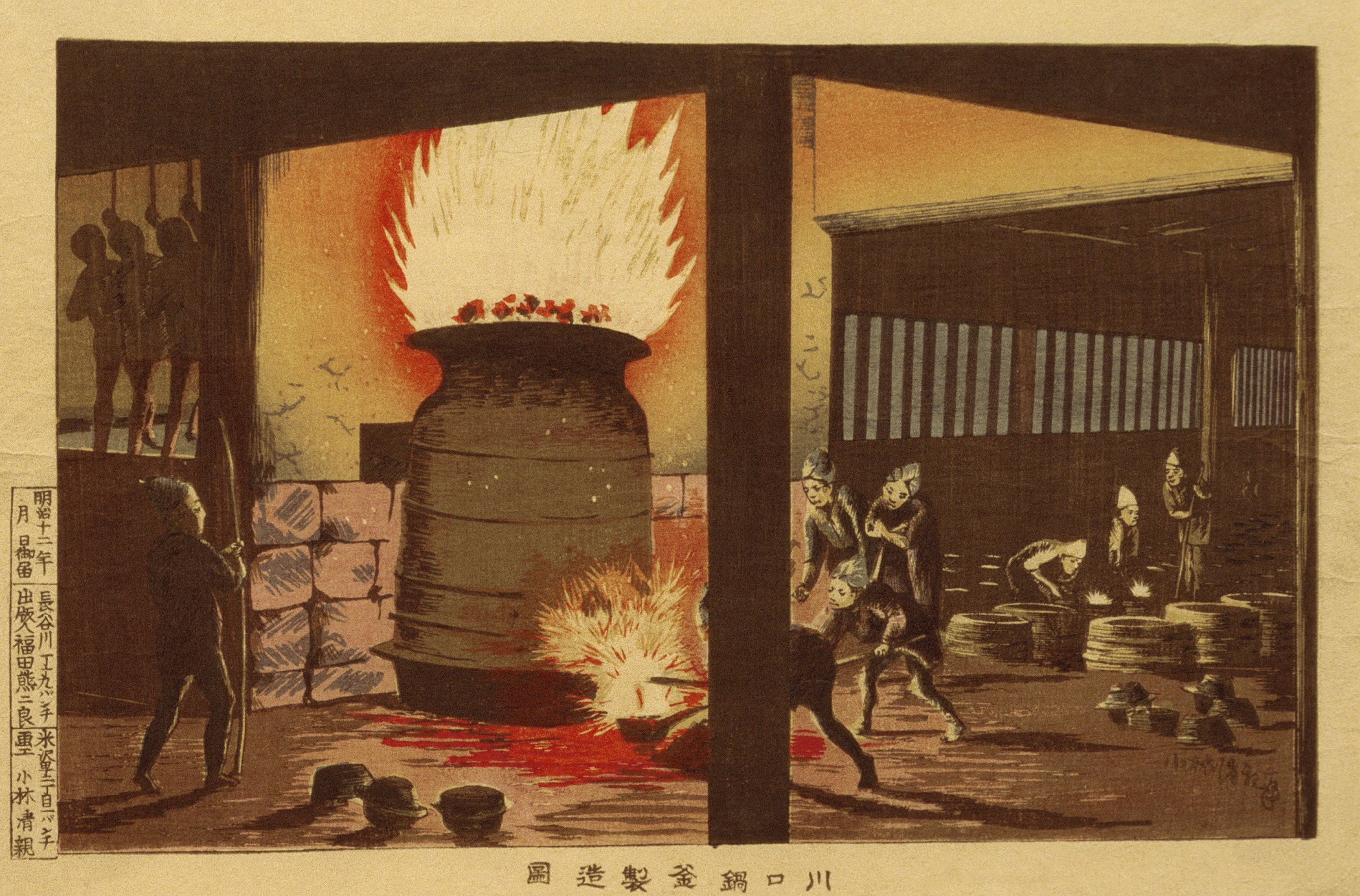 Japan, 1879 Alternate Title: Kawaguchi kafu seizo zu Prints; woodcuts Color woodblock print Gift of Carl Holmes (M.71.100.42) Japanese Art